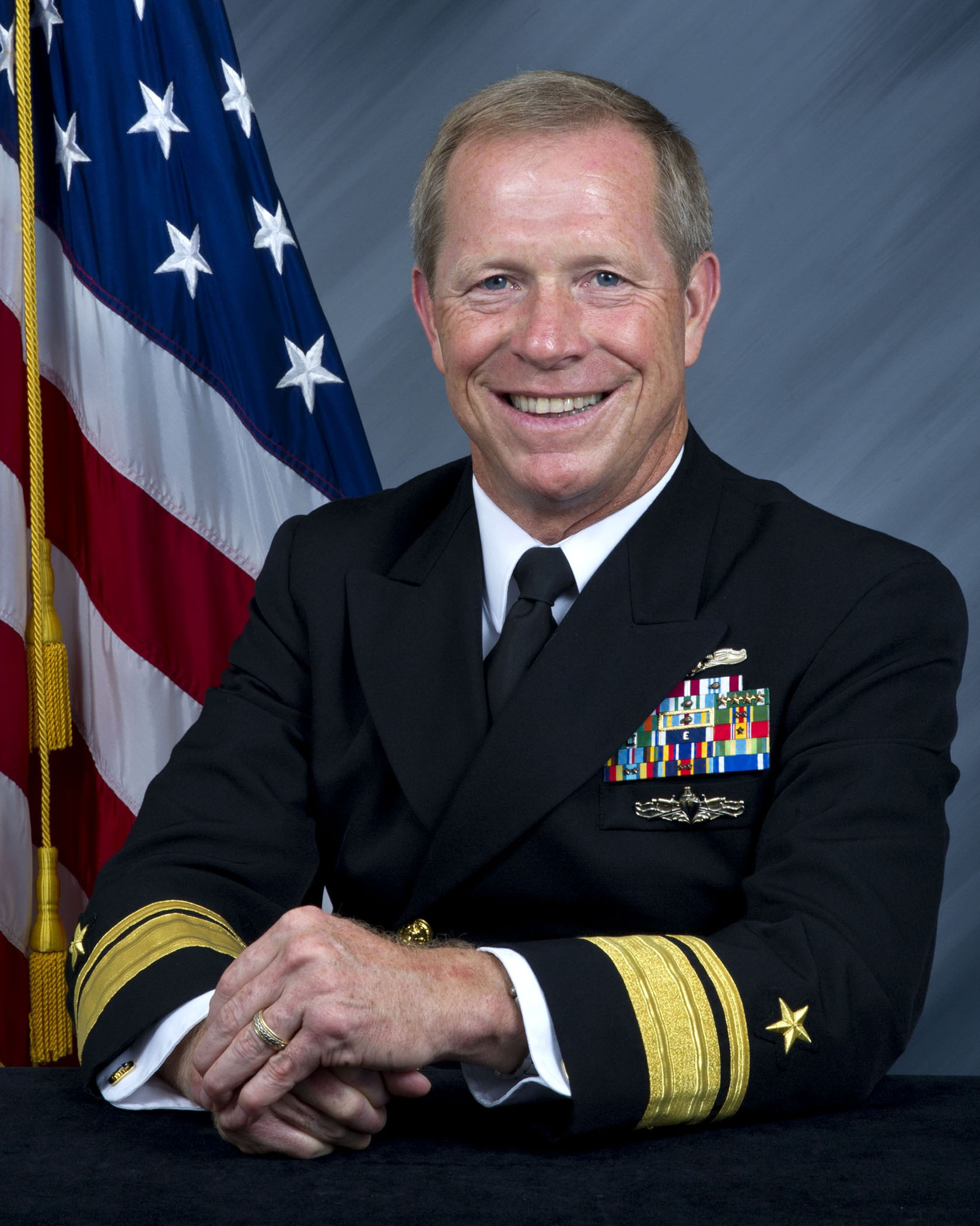 Rear Adm. Jonathan W. White